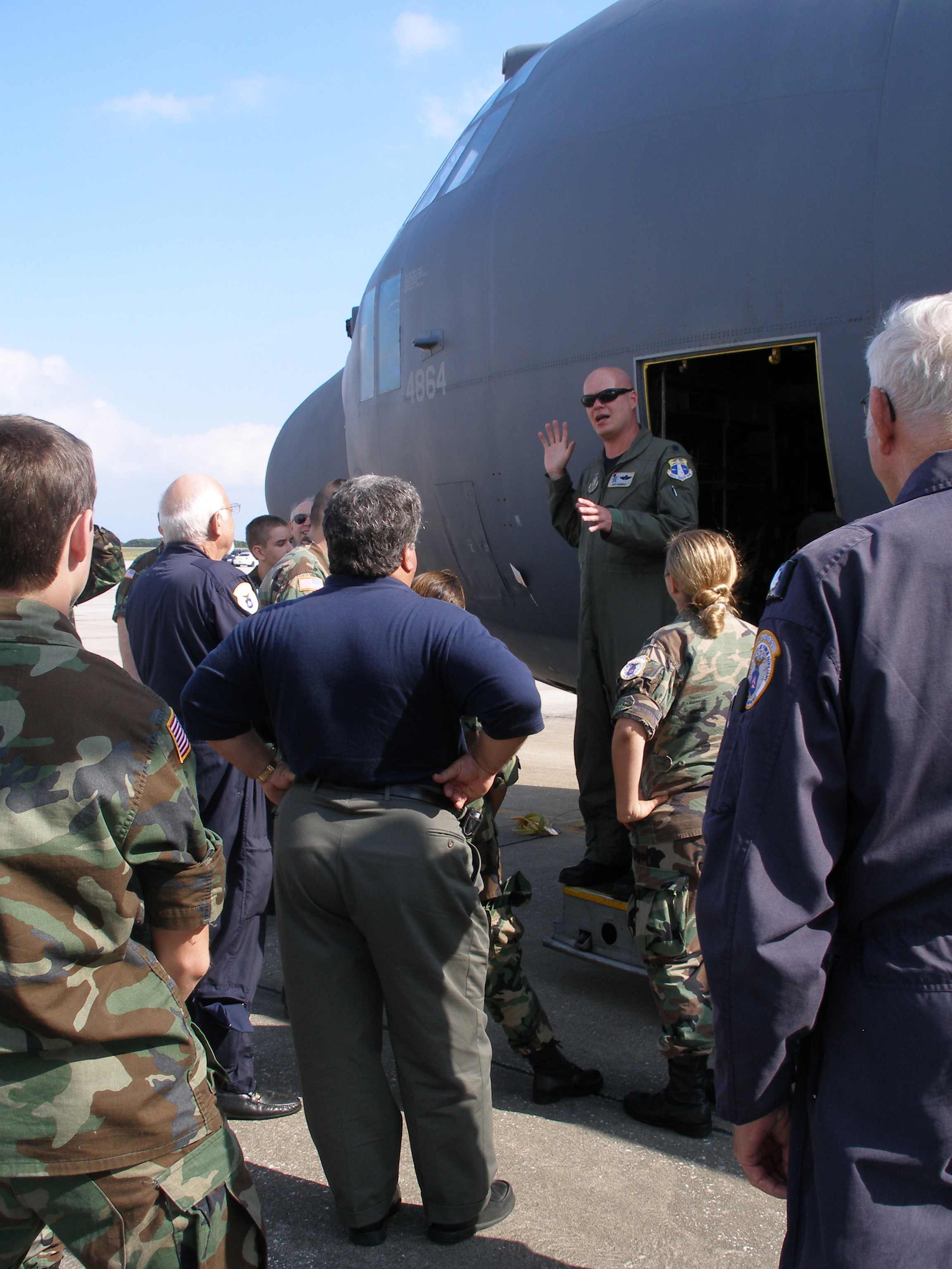 A group of Florida Civil Air Patrol cadets visited the 920th Rescue Wing December 1. During their visit the director of operations, Lt. Col. Jeff Hannold, 39th Rescue Squadron, educated them on the HC-130P/N Hercules aircraft, registration number 64-4864. They had the chance to go inside the aircraft's fuselage as well. They finished the morning with lunch at the Patrick Air Force Base Dining Facility.